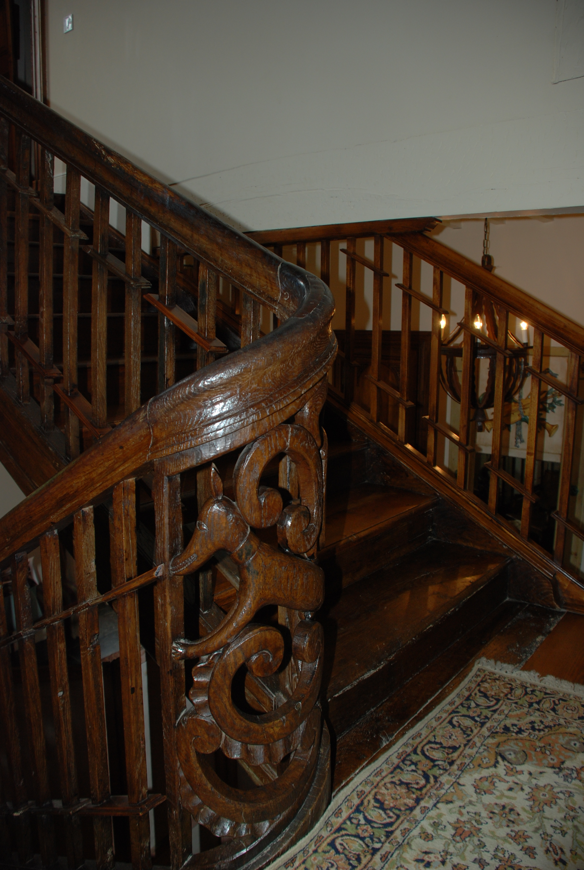 Stair landing, wooden interior stair flight, and railing, 1798, Azeireix, Hautes-Pyrénées, France.